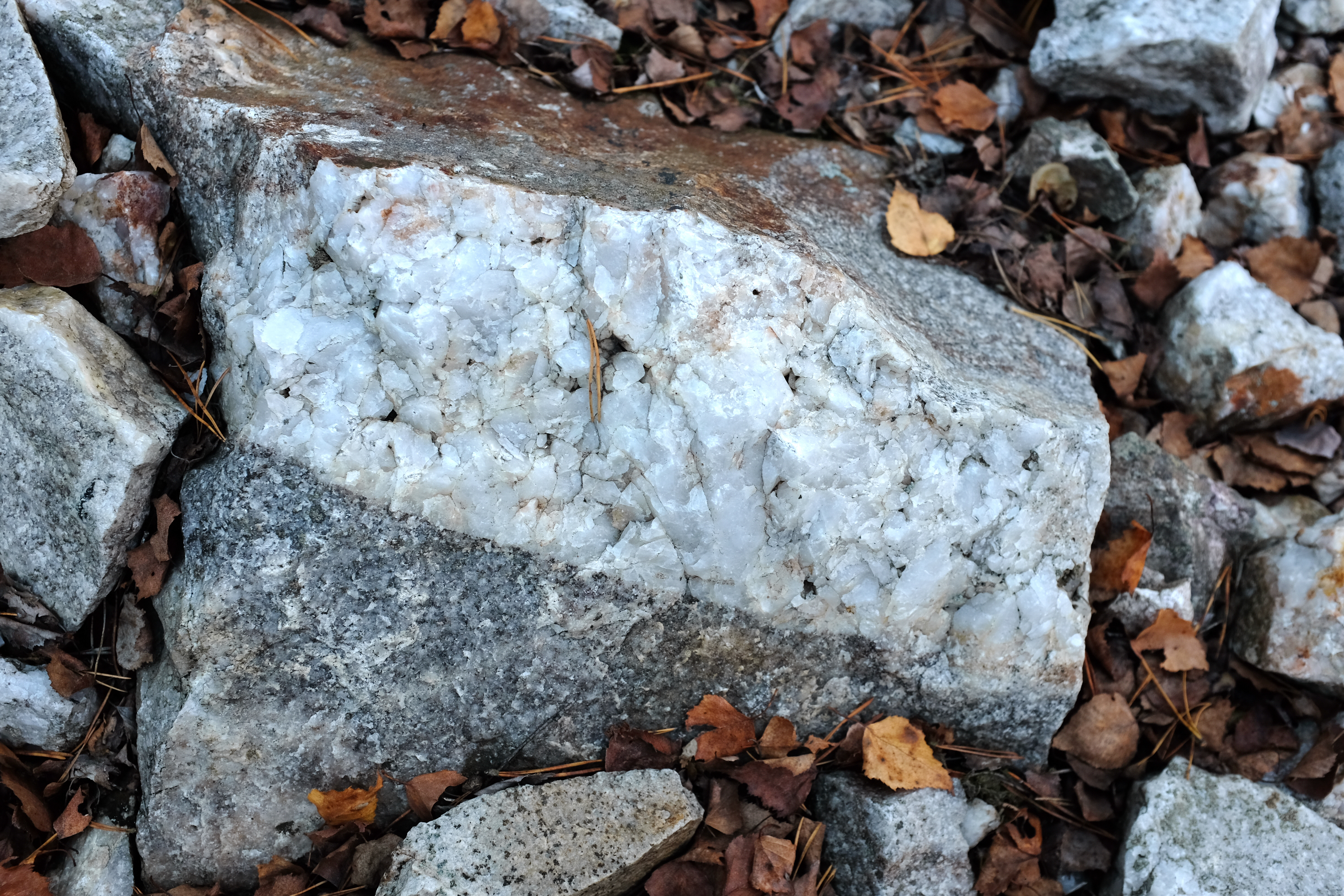 Greisen with a quartz vein, Krásno, Slavkovský les, Czech